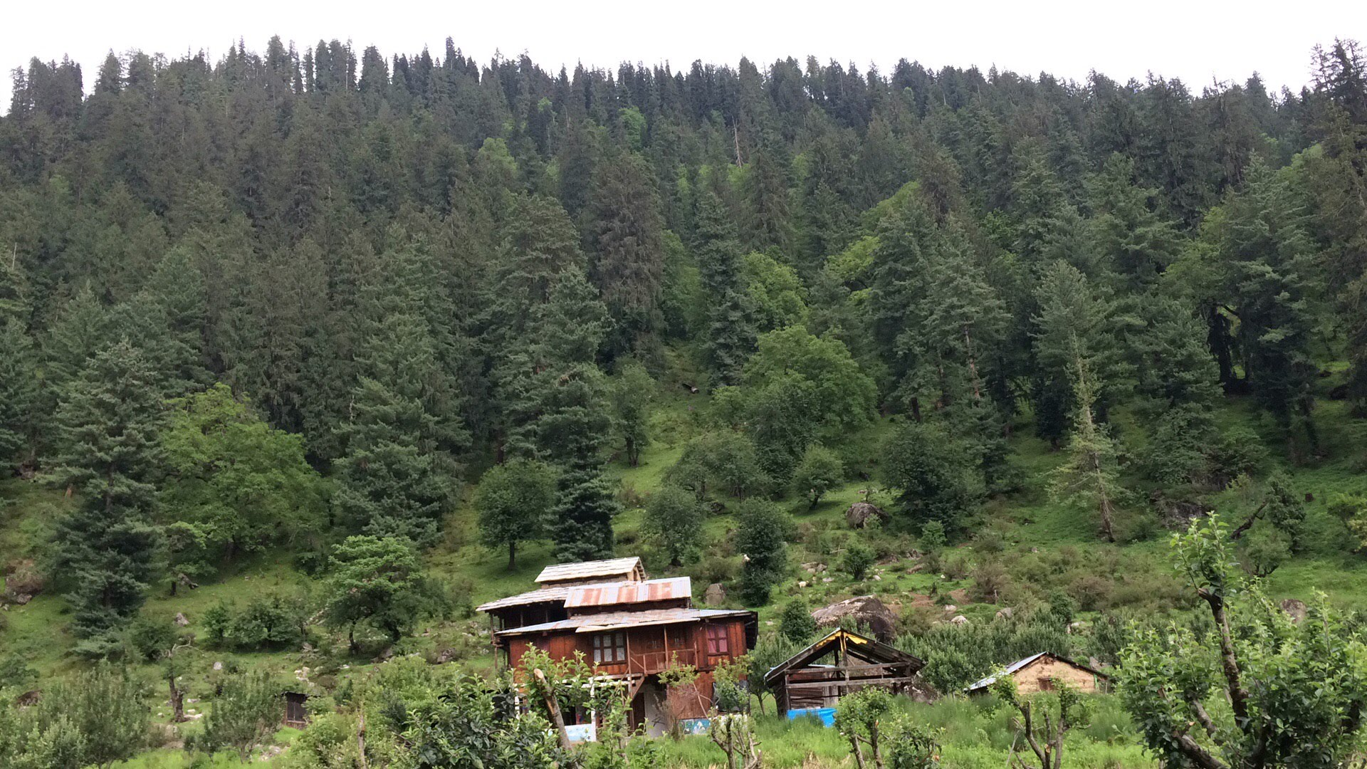 A small serene village in Himachal Pradesh